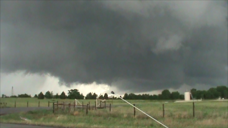 Supercell thunderstorm near Teague, Texas. This storm would go on to produce at least one tornado near Fairfield, Texas.